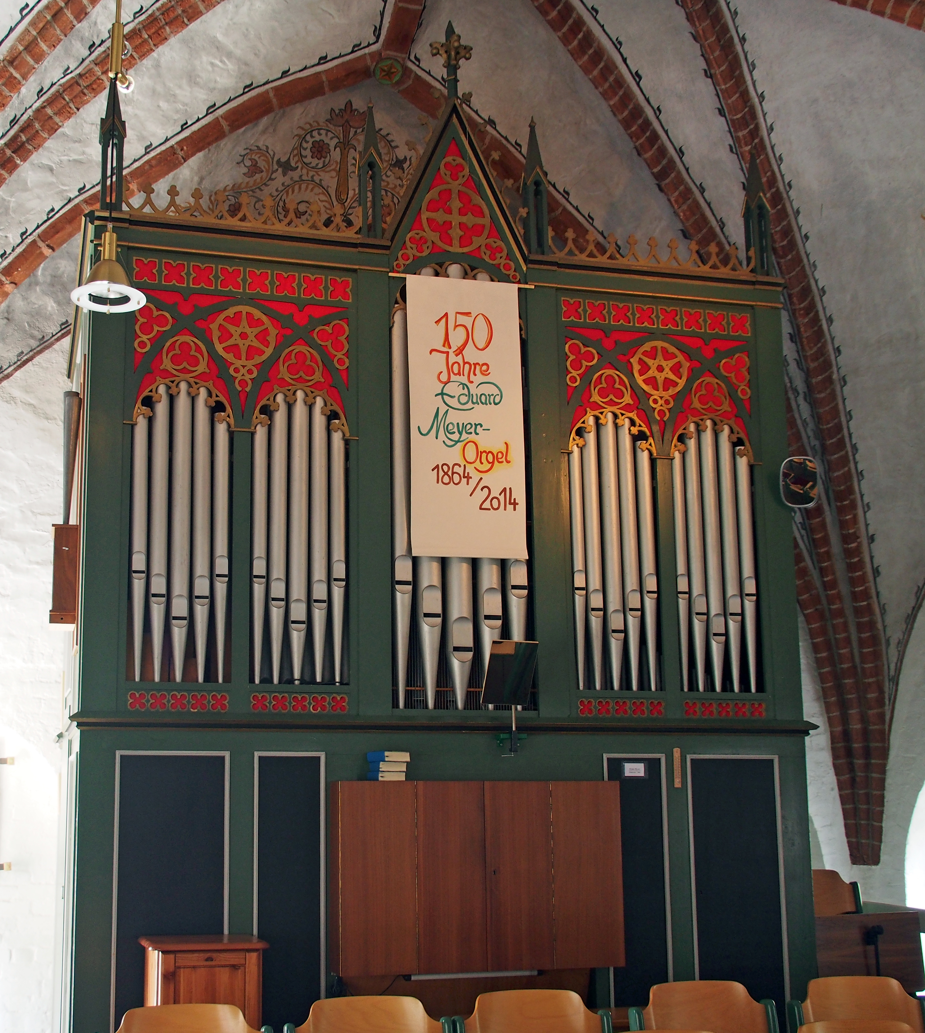 Mueden, Lower Saxony (Germany), organ in the Church